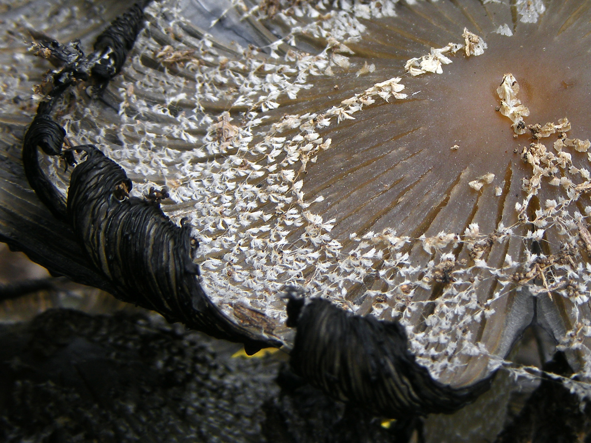 Coprinopsis lagopus - pileus close-up.